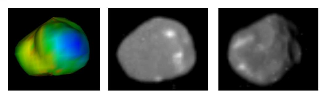 These images of Jupiter's moon Amalthea were taken with NASA's Galileo and Voyager spacecraft. Recent findings show that Amalthea is almost pure water ice, hinting that it may not have formed where it now orbits. This information challenges long-held theories about how moons form around giant planets. The image on the left shows the escape velocities color-coded on a shape model of Amalthea with the same viewpoint as the Voyager spacecraft image in the middle panel. Blue represents the lowest escape velocity, barely 1 meter per second (about 3 feet) near the anti-Jupiter end, while red (barely visible) shows the region of much higher escape velocity, nearly 90 meters per second (295 feet). The low escape velocities result from the low density of Amalthea and from its rapid rotation as it orbits Jupiter. The middle image is a composite from both Galileo and NASA's Voyager spacecraft (see PIA02530) and shows Amalthea from the anti-Jupiter side. The visible area is about 150 kilometers (93 miles) across. The Sun is behind the spacecraft, resulting in loss of visible shadows. The brighter markings on the ends of a ridge are prominent in this view. On the right is a Galileo image of Amalthea, (see PIA02532), with the bright spots on the end of Amalthea seen from the leading side of the satellite. Here the Sun is to the left and topography, such as the impact crater at the right, is visible. Amalthea is Jupiter's fifth largest moon. It orbits about 181,000 kilometers (112,468 miles) from Jupiter, considerably closer than the Moon orbits Earth. It measures about 168 miles in length and half that in width. Galileo passed within about 99 miles of the moon on Nov. 5, 2002. After more than 30 close encounters with Jupiter's four largest moons, the Amalthea flyby was the last moon flyby for Galileo. The mission began orbiting the planet in 1995.